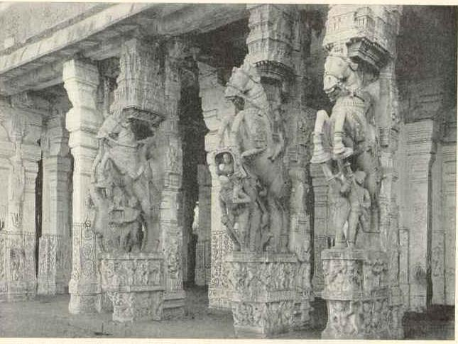 Stone carving in Ranganathaswamy temple in Srirangam